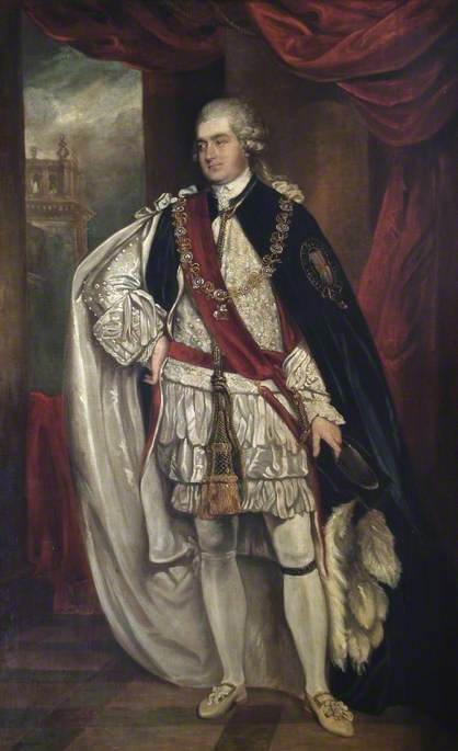 Portrait of George Spencer, 4th Duke of Marlborough (1739-1817)